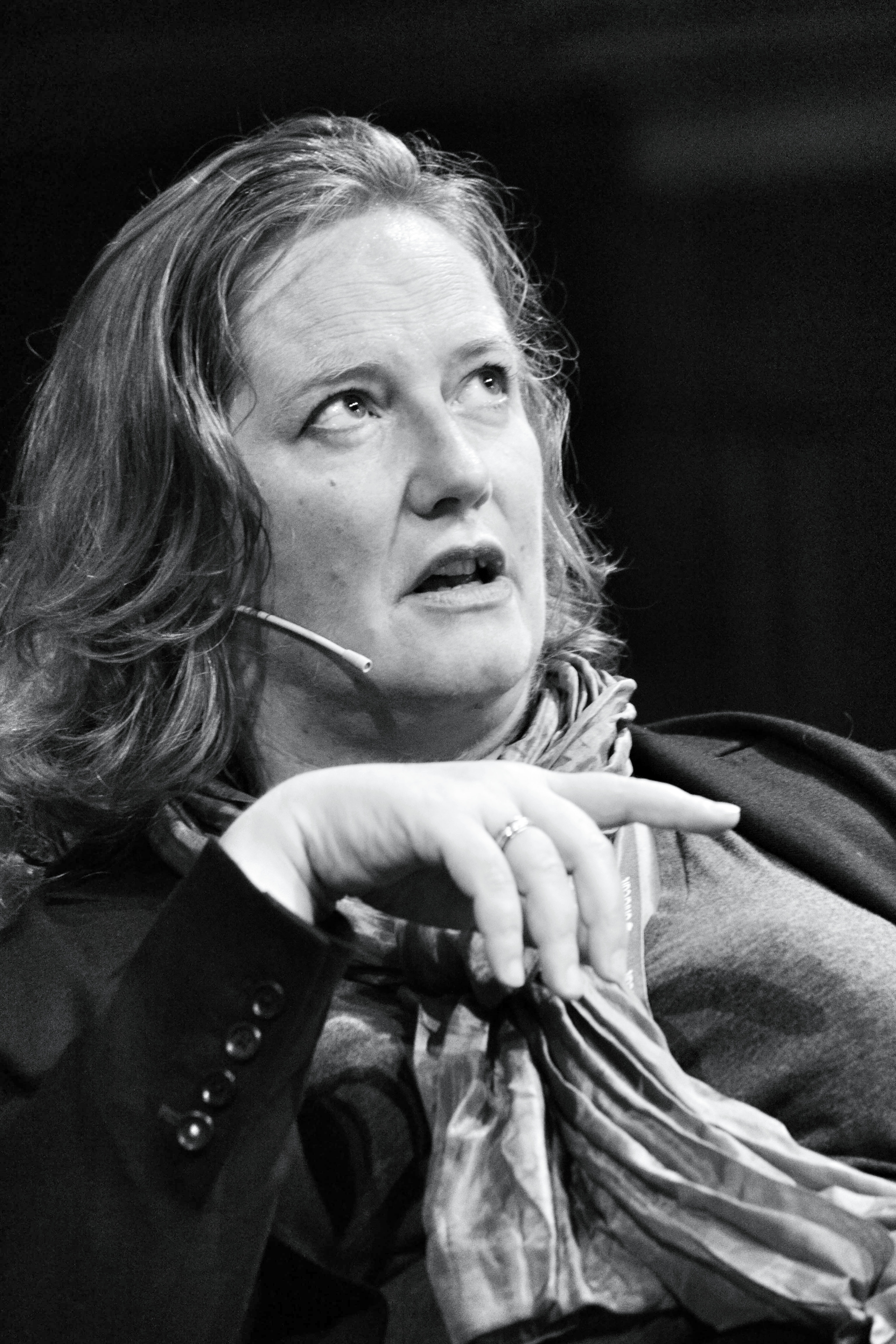 Emily Bell at the International Journalism Festival in Perugia, Italy in 2013